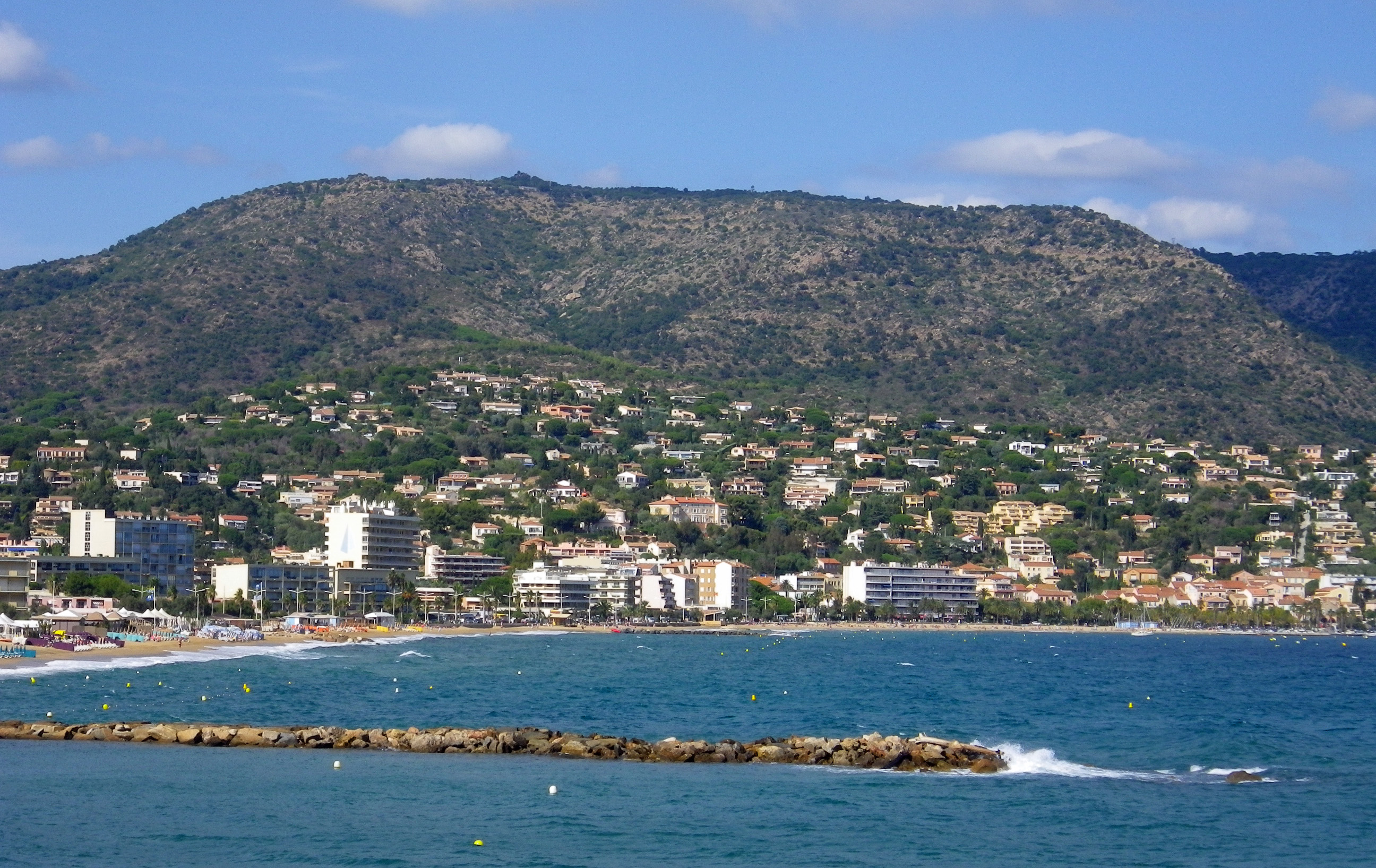 Le Lavandou (departement Var, France) seen from Gouron hill (south). Massif des Maures in the background